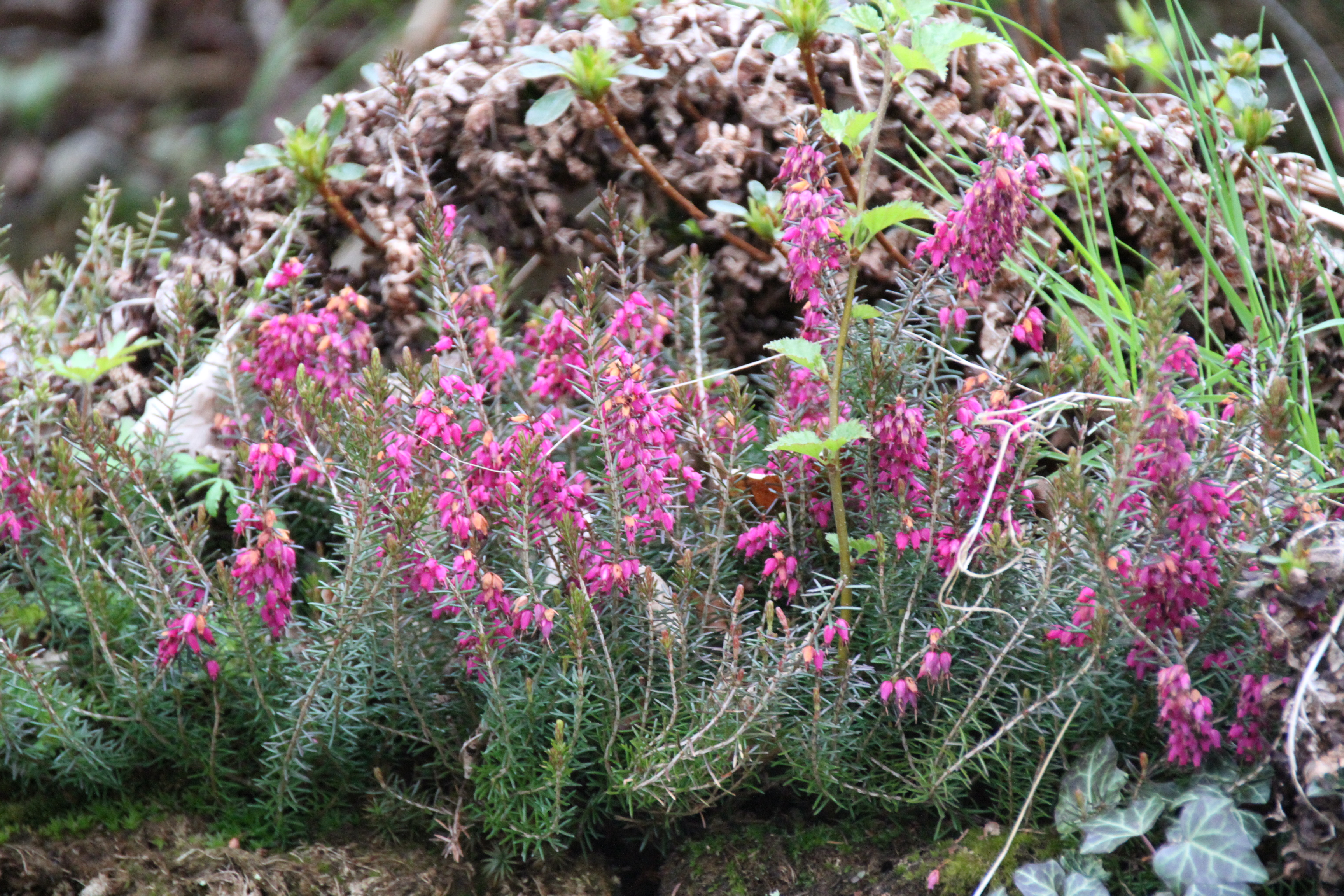 Erica cinerea in the Bergfeldtska Garden in the city of Kungälv, western Sweden.